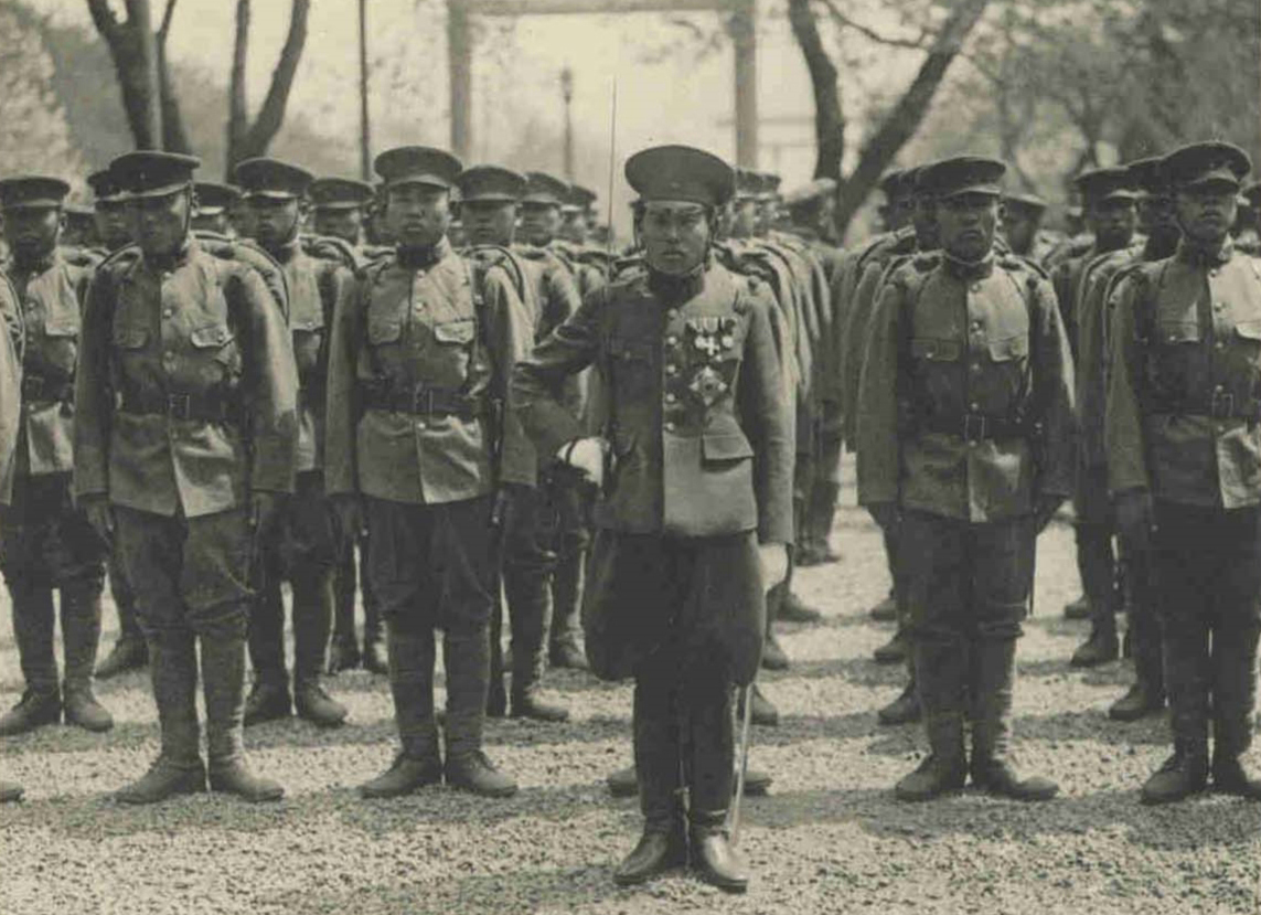 Prince Yi Wu, Tokyo, 1934